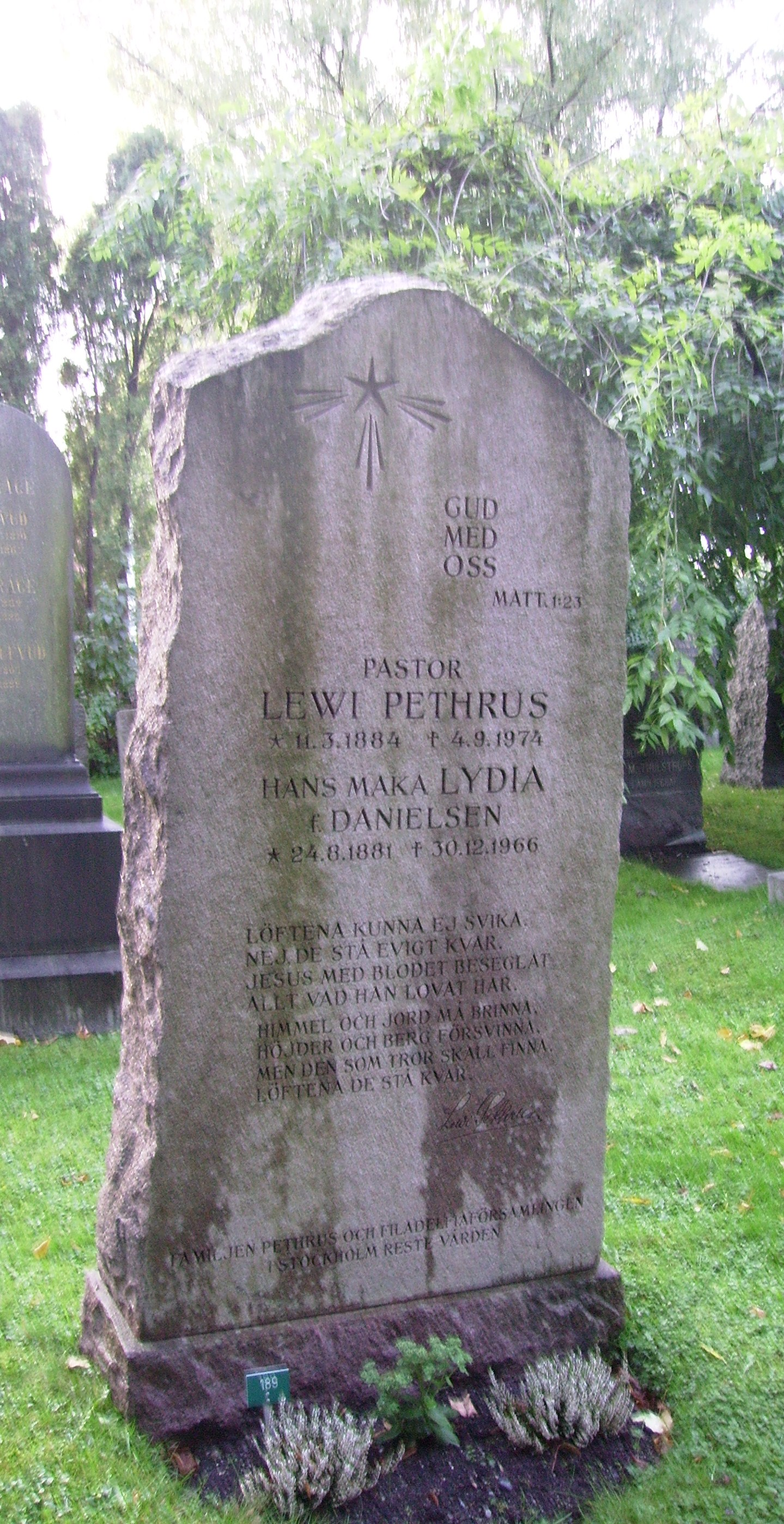 Picture of Lewi Pethrus grave at Solna kyrkogård